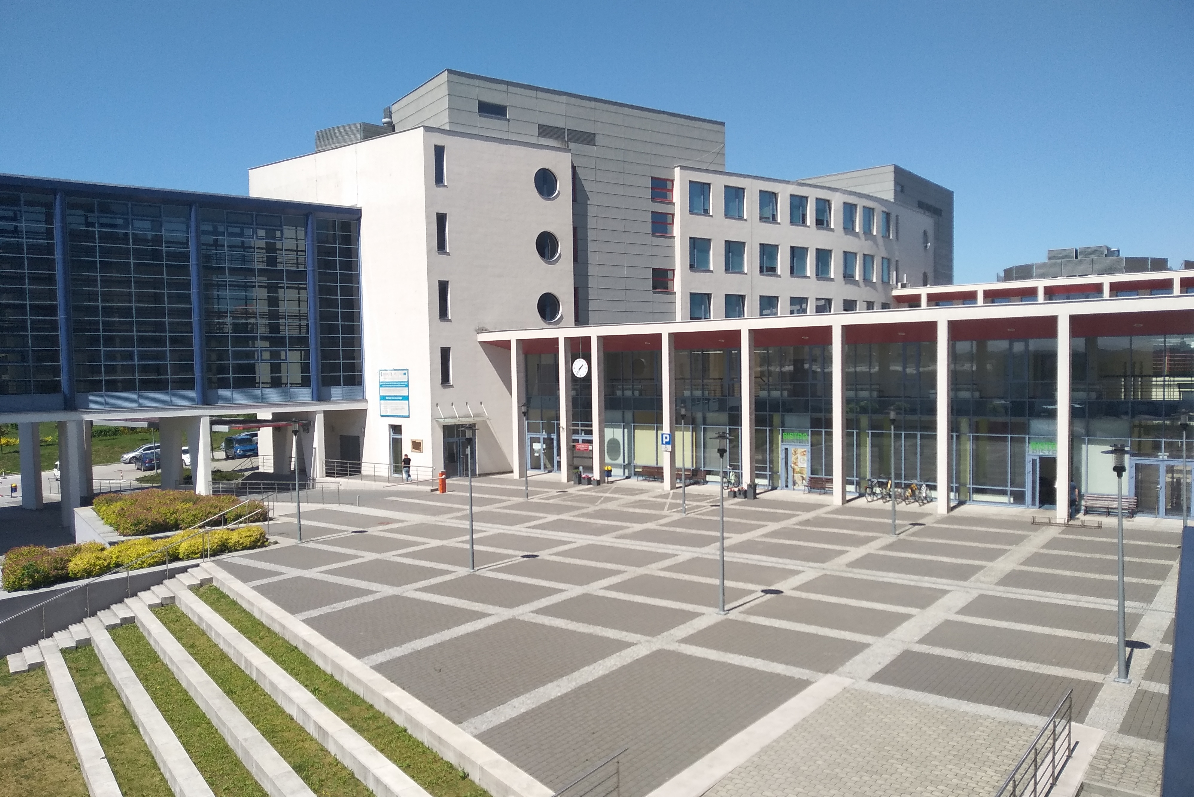 The Faculty of Mathematics and Natural Sciences